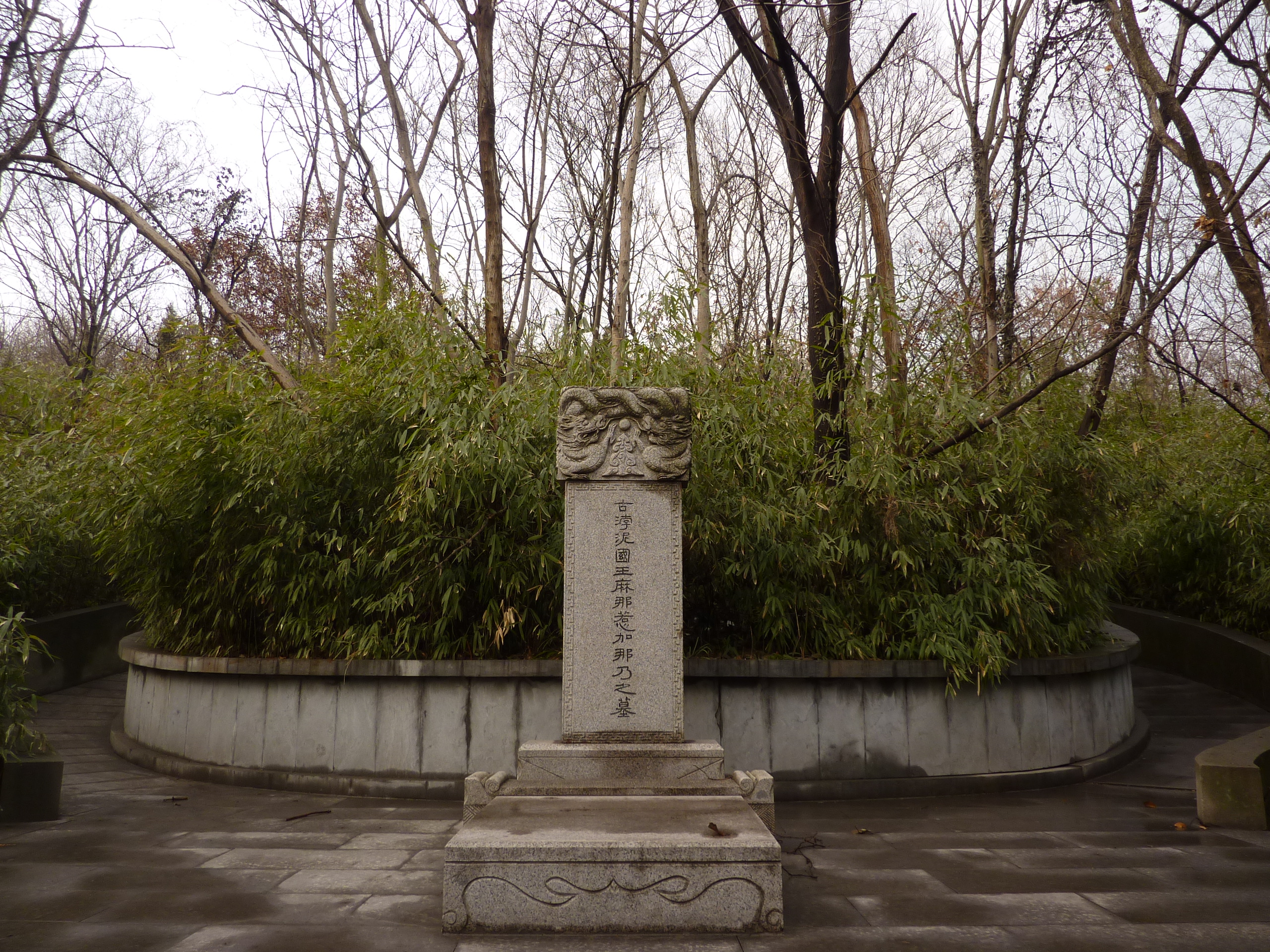 The actual Tomb of the Sultan of Brunei in Nanjing, with a stele on top. One gets here after passing by the sultan's bixi (stone tortoise) and along the shendao (spirit way).